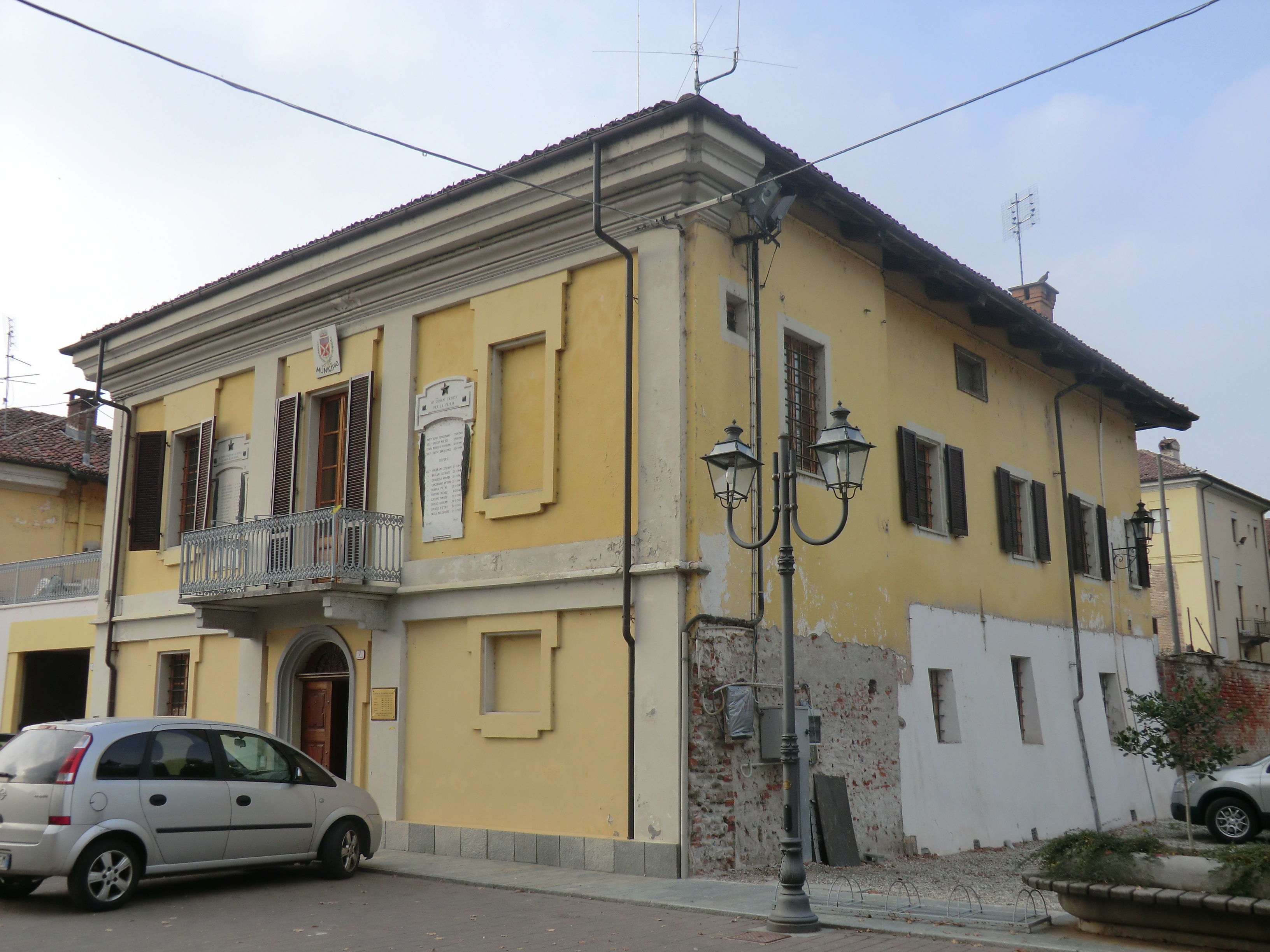 Villanova Solaro (Cuneo - Italy): city hall